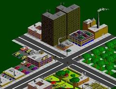 screenshot from Virtucity version 8.006